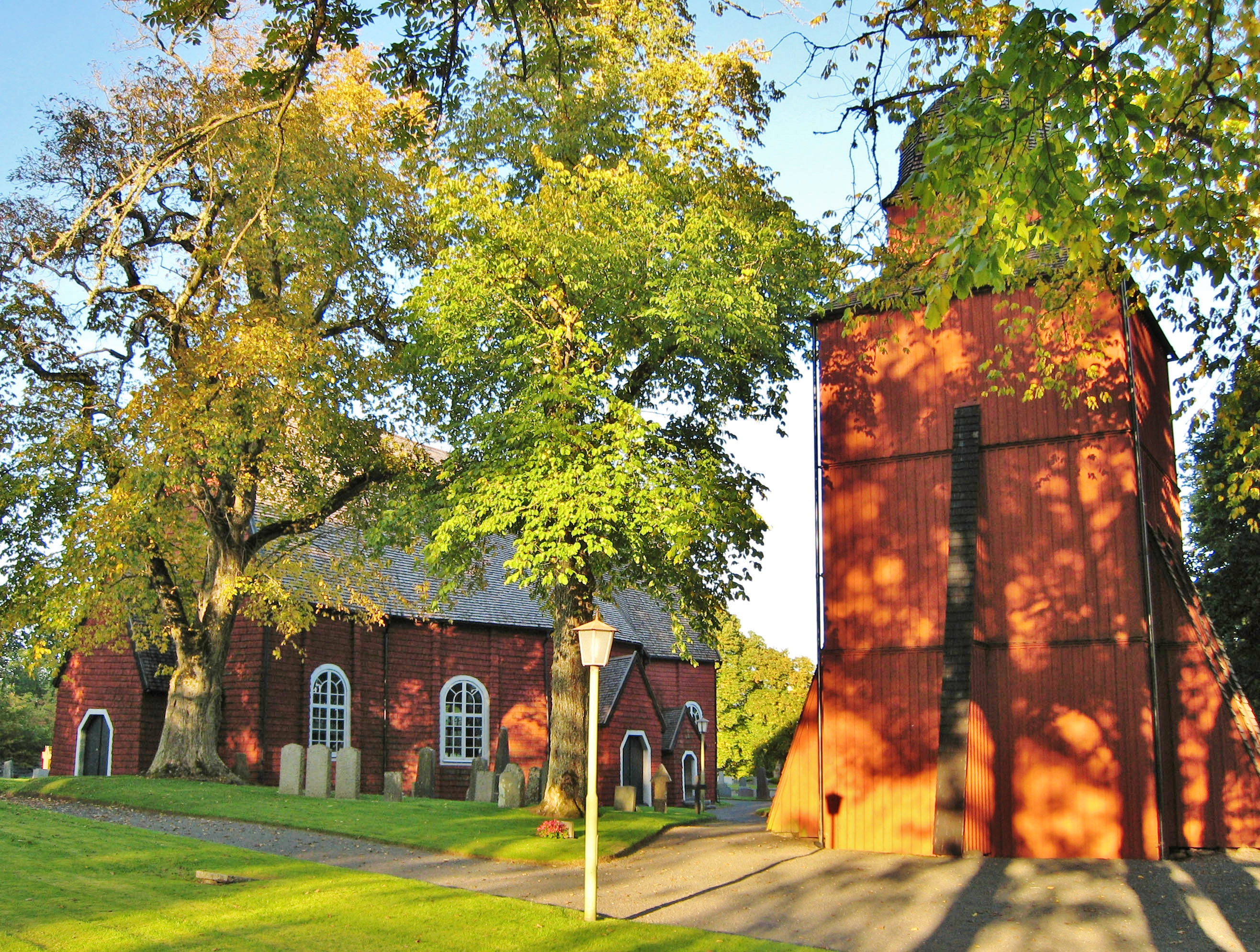 Näshults Church and Bell Tower.